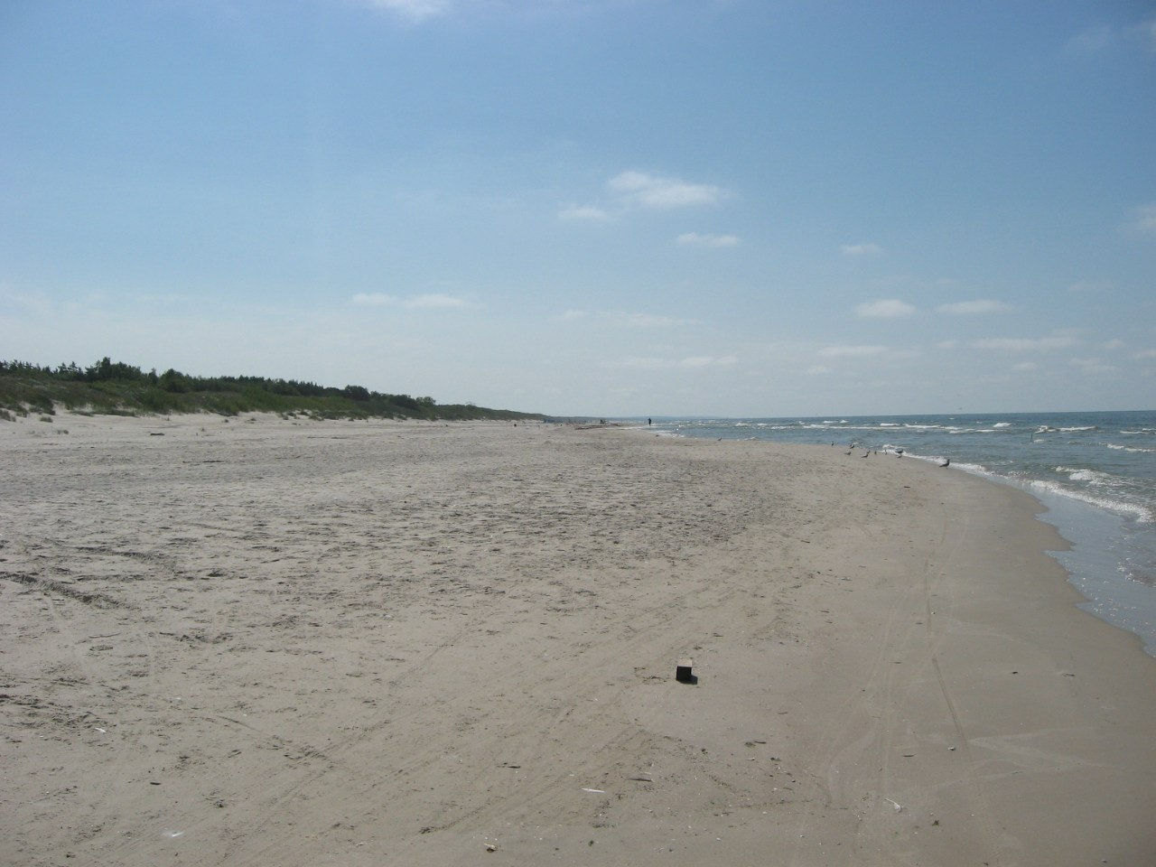 Curonian Spit